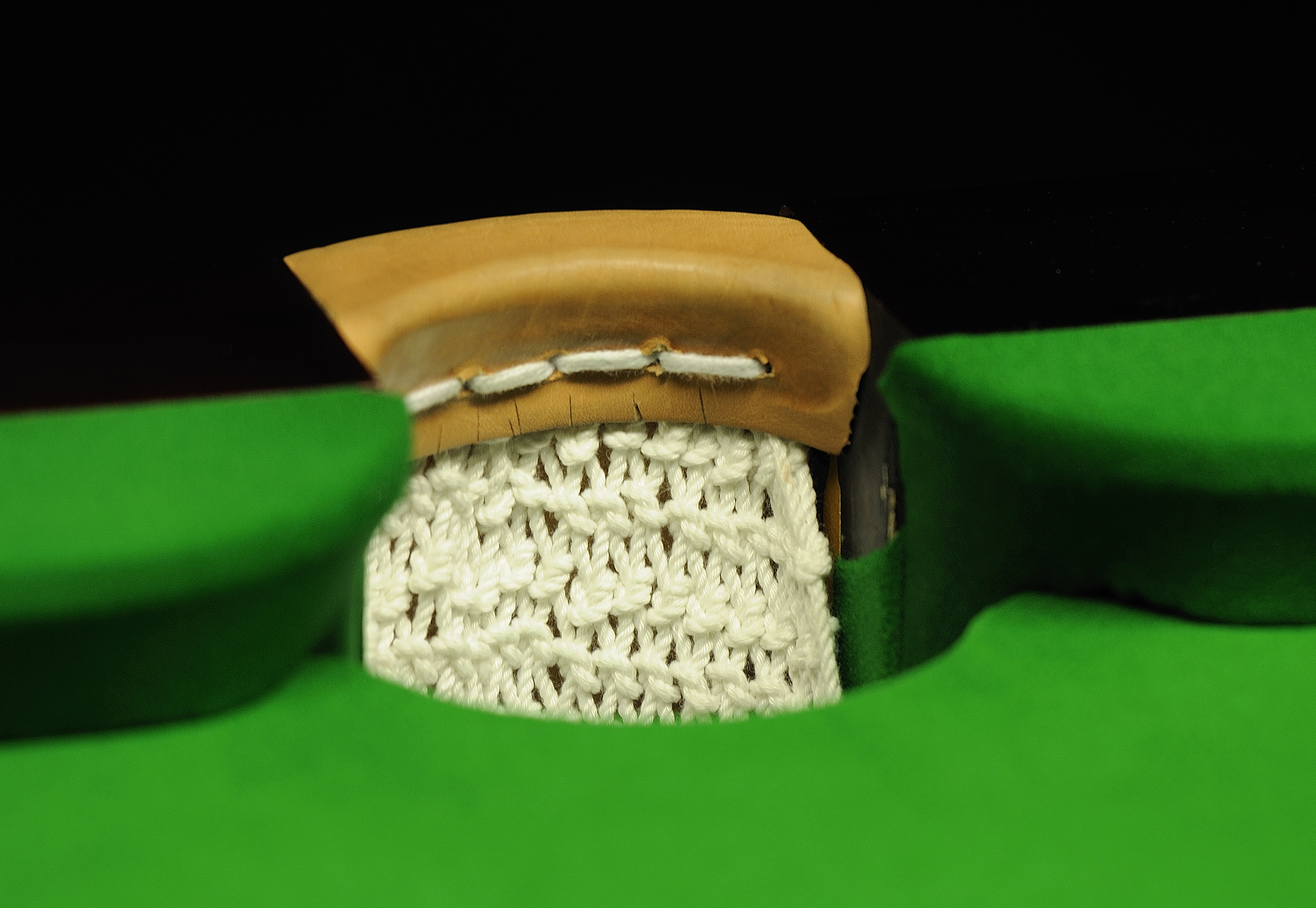 Picture taken in Berlin during the Snooker German Masters in 2011.